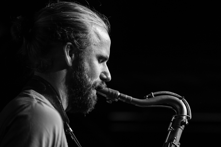 Jørgen Mathisen in a concert with Krokofant at Privat Bar. The concert was part of Kongsberg Jazzfestival and took place on 03. July 2019 in Kongsberg. Lineup:Tom Hasslan (guitar)Axel Skalstad (drums)Jørgen Mathisen (saxophone)Ståle Storløkken (organ)Ingebrigt Håker Flaten (bass guitar)